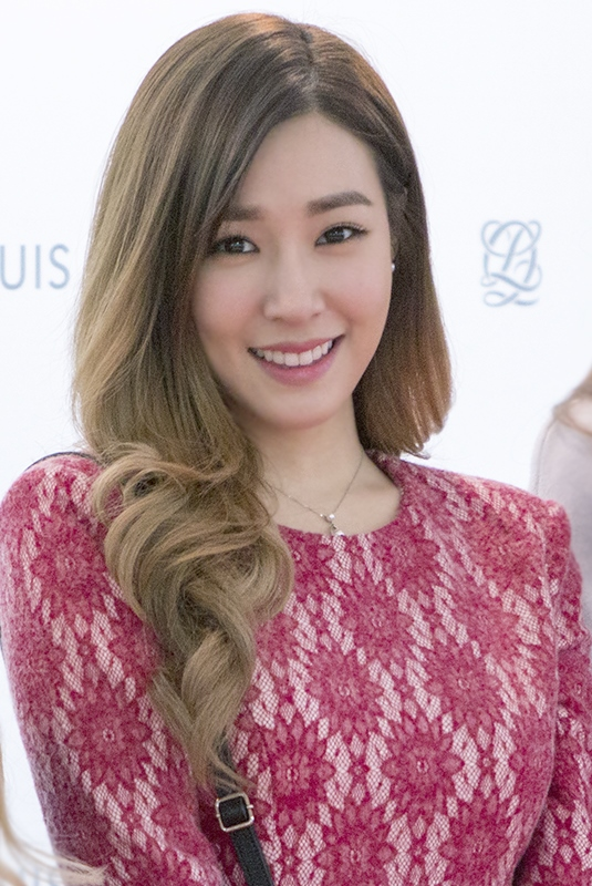 Tiffany Hwang at a fan signing event for Louis Quatorze on November 27, 2015.